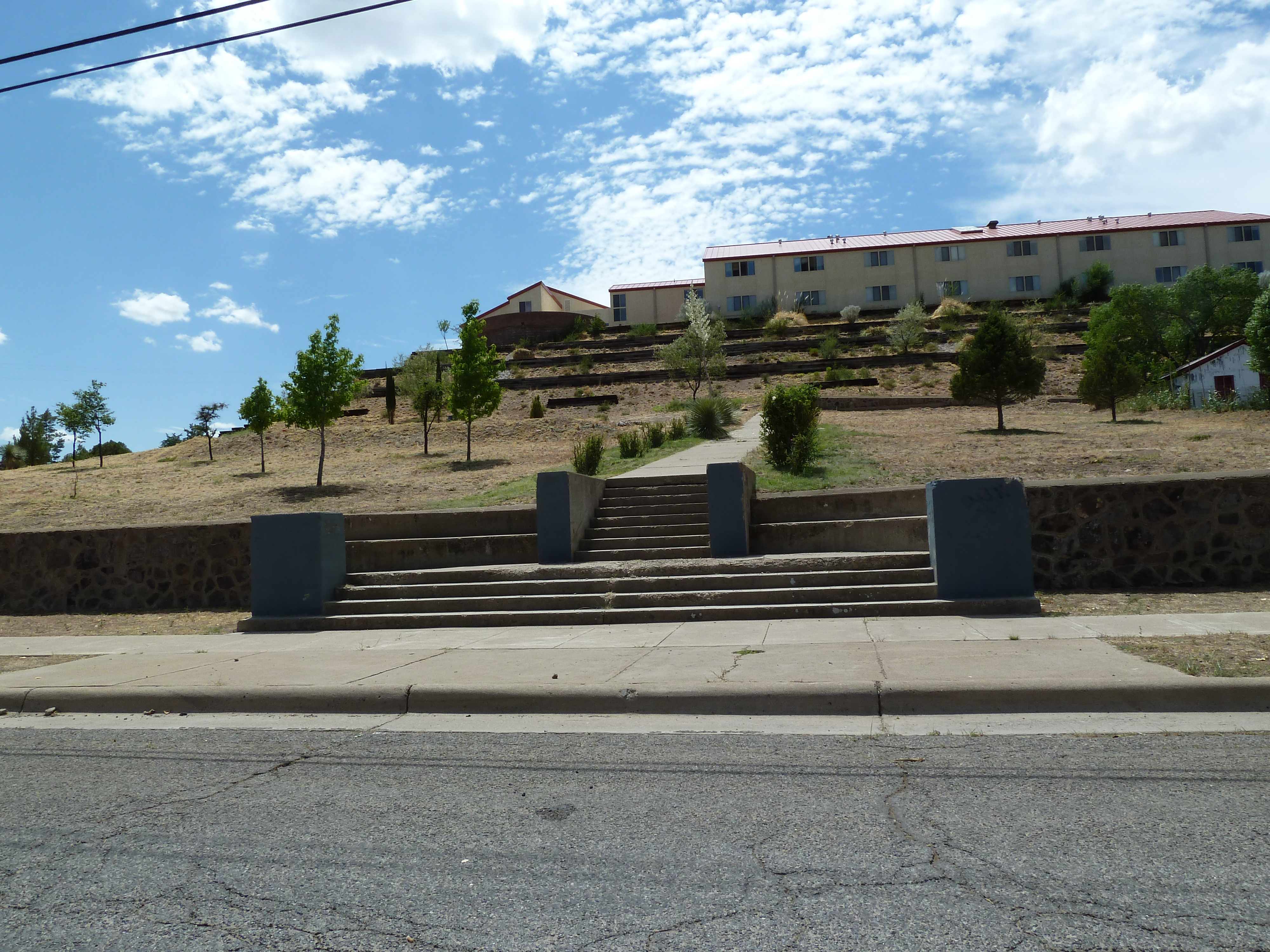 Location of Western High School in the year 2011, now dormitories for Western New Mexico University.